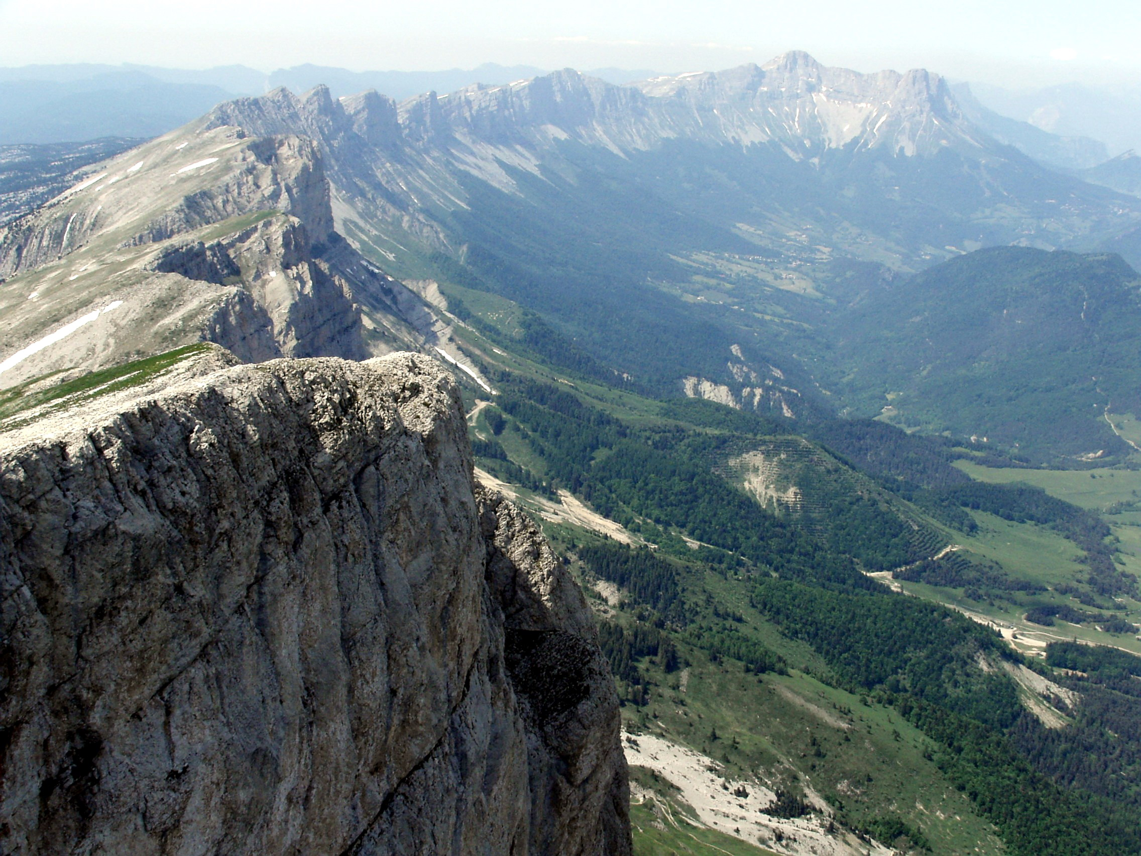 Eastern ridge of the Vercors, seen from le Grand Veymont. Bellow these cliffs starts the Triève.